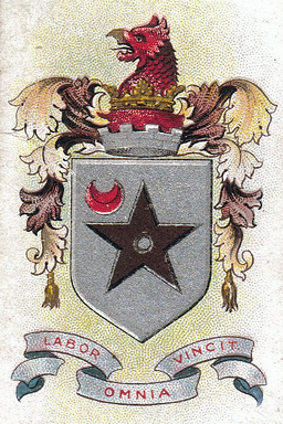 The coat of arms of Ashton-under-Lyne Municipal Borough Council, a former (1847-1974) local authority in Lancashire, England. The armoural description is as follows: Argent, a mullet sable, pierced of the field; in dexter chief a crescent gules. Crest: On a wreath of the colours, Upon the battlements of a tower proper, a griffin's head erased gules, charged on the neck with a crescent Or. Motto: Labor omnia vincit. Granted 7 July 1926. The silver shield with the black five-pointed star was the arms of the Assheton family from the early Middle Ages, and branches of the family used the arms with slight differences or by adding the marks of younger sons. One such mark is the crescent, and it was this particular branch of the family whose arms were assumed by the Town Commissioners in the 1830s. The Borough Council inherited this assumption in 1847 but it was not until 1926 that The College of Arms granted the present arms which denote the borough while retaining the link with the original lords of the manor. The motto "LABOR OMNIA VINCIT" means Persistent Works Triumphs and is a quotation from Virgil's Georgics.